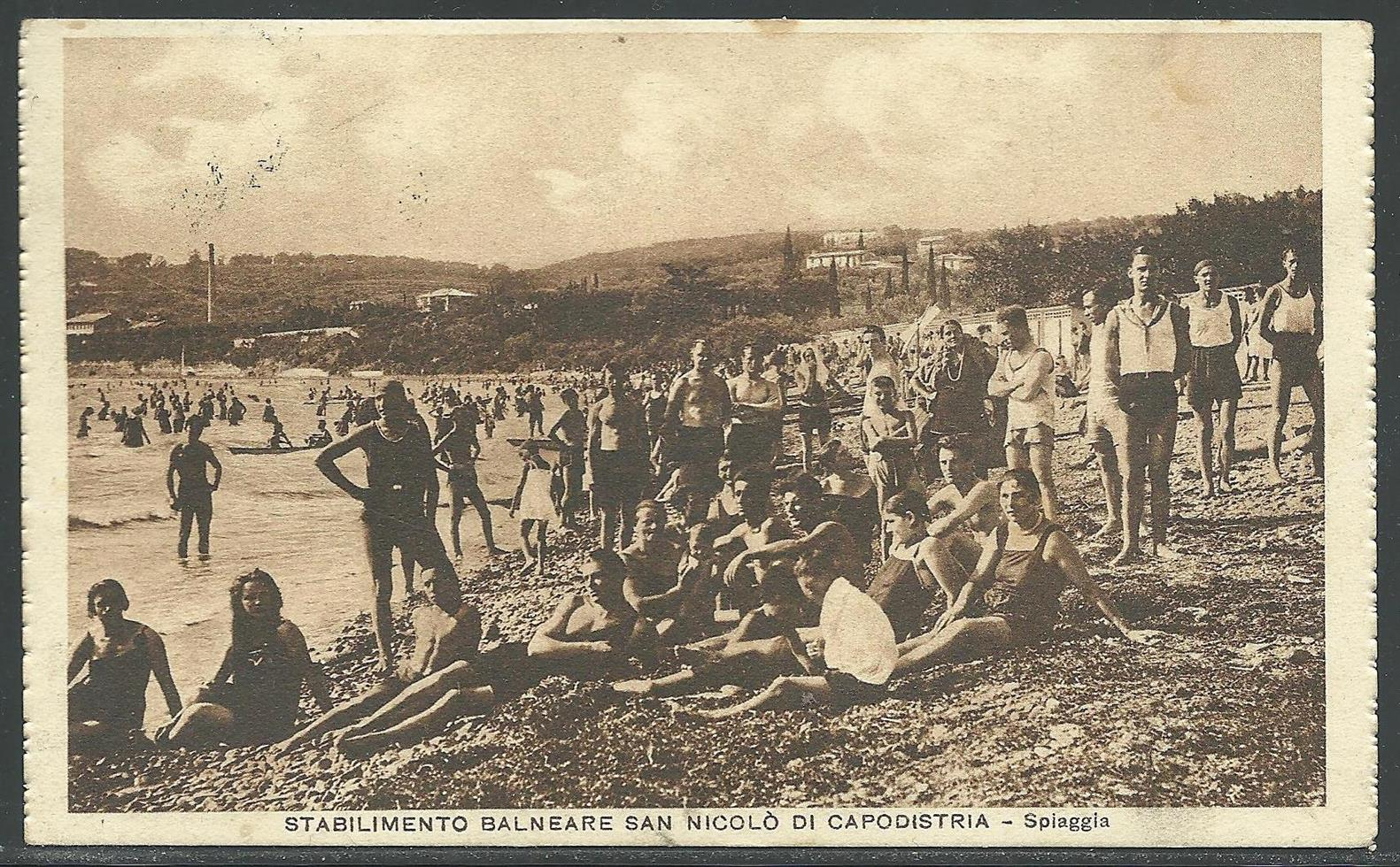 Postcard of Ankaran.